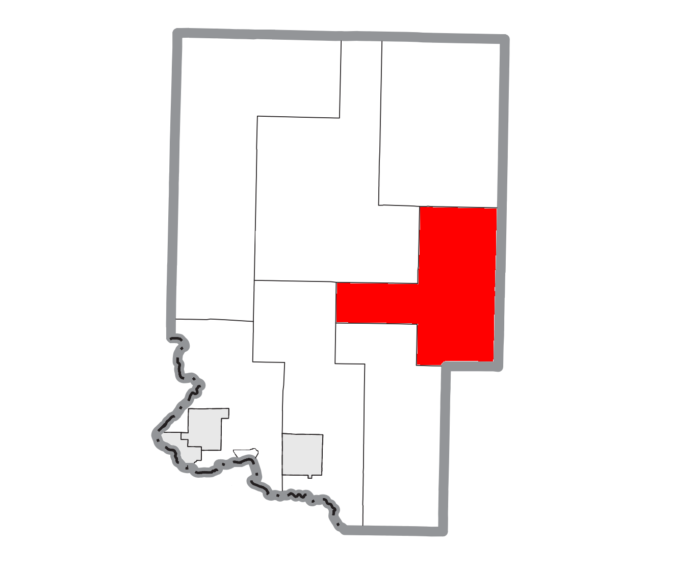 Breen Township